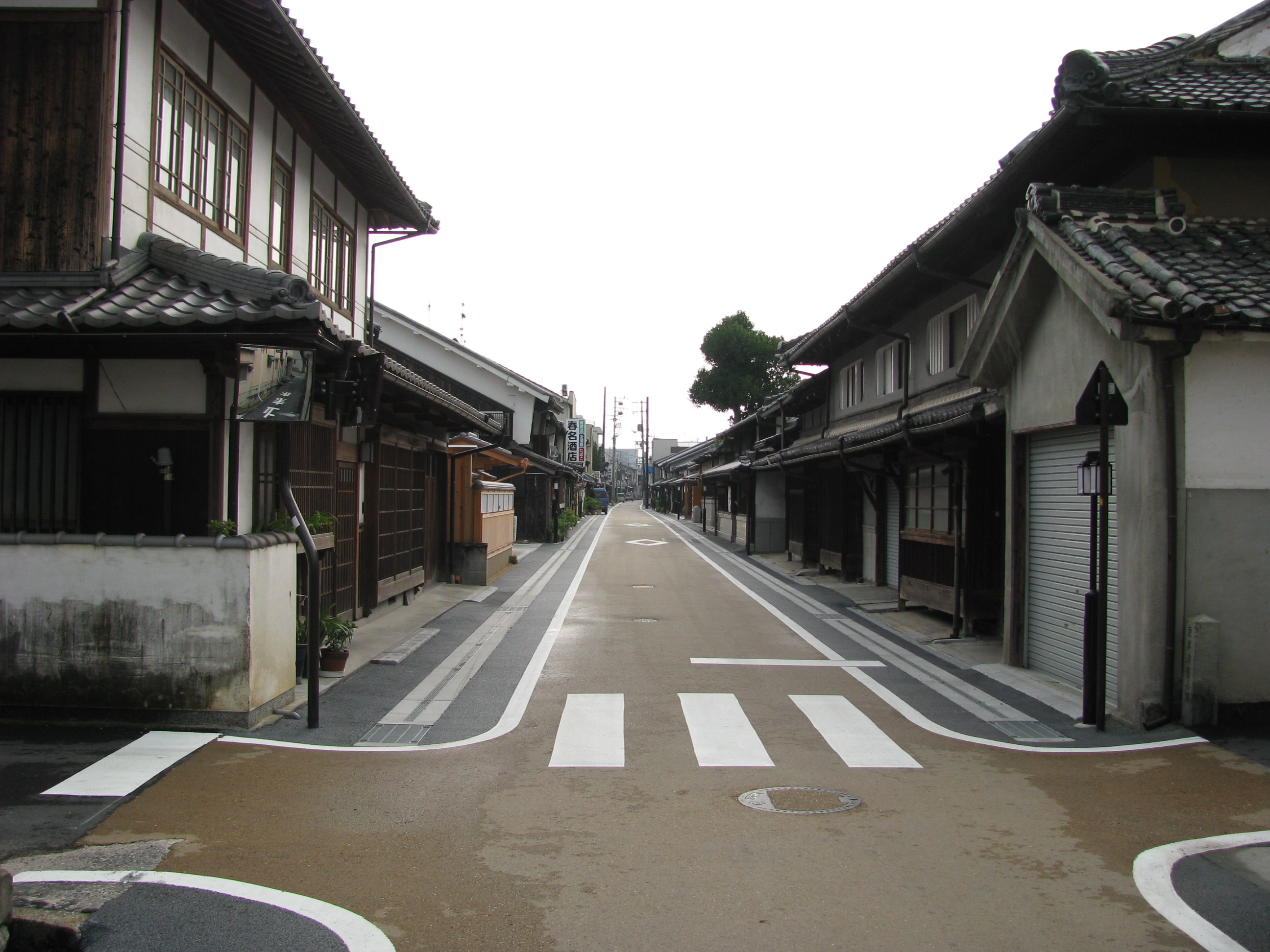 The jōka-machi of Tsuyama-jō. This place is Tsuyama, Okayama, Japan.